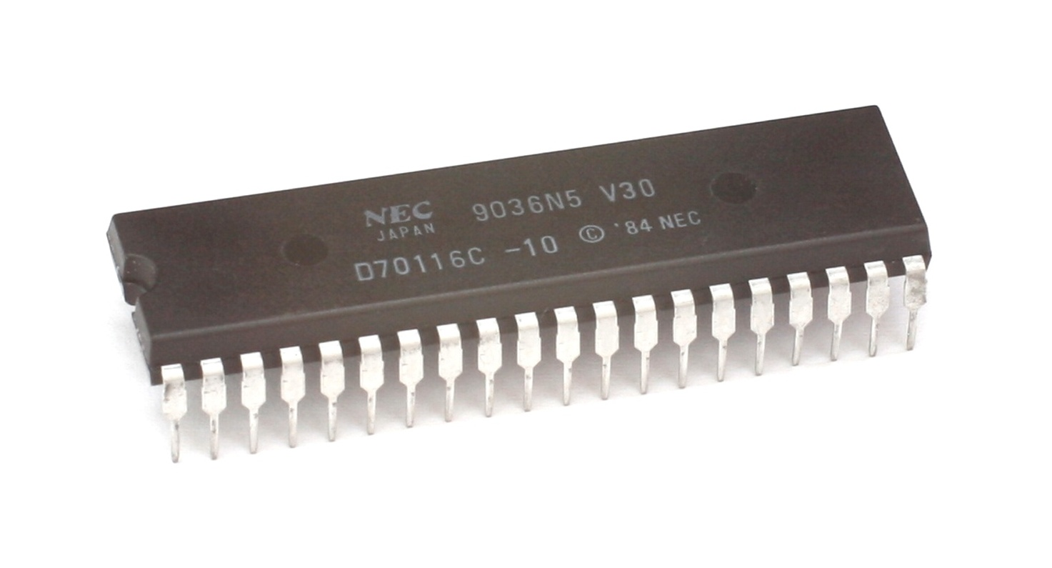 CPU NEC V30